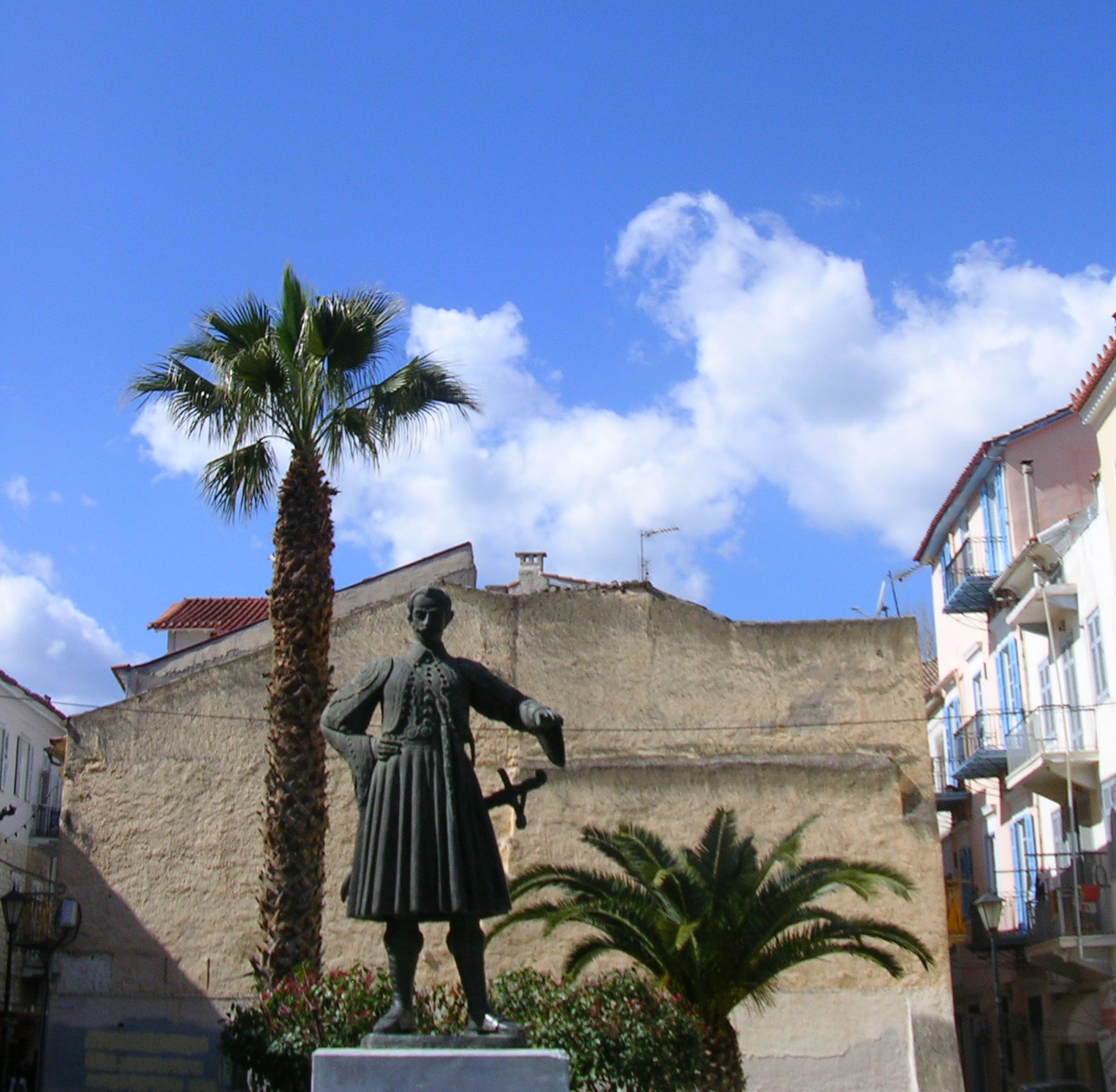 Statue of Otto of Greece in Nafplion